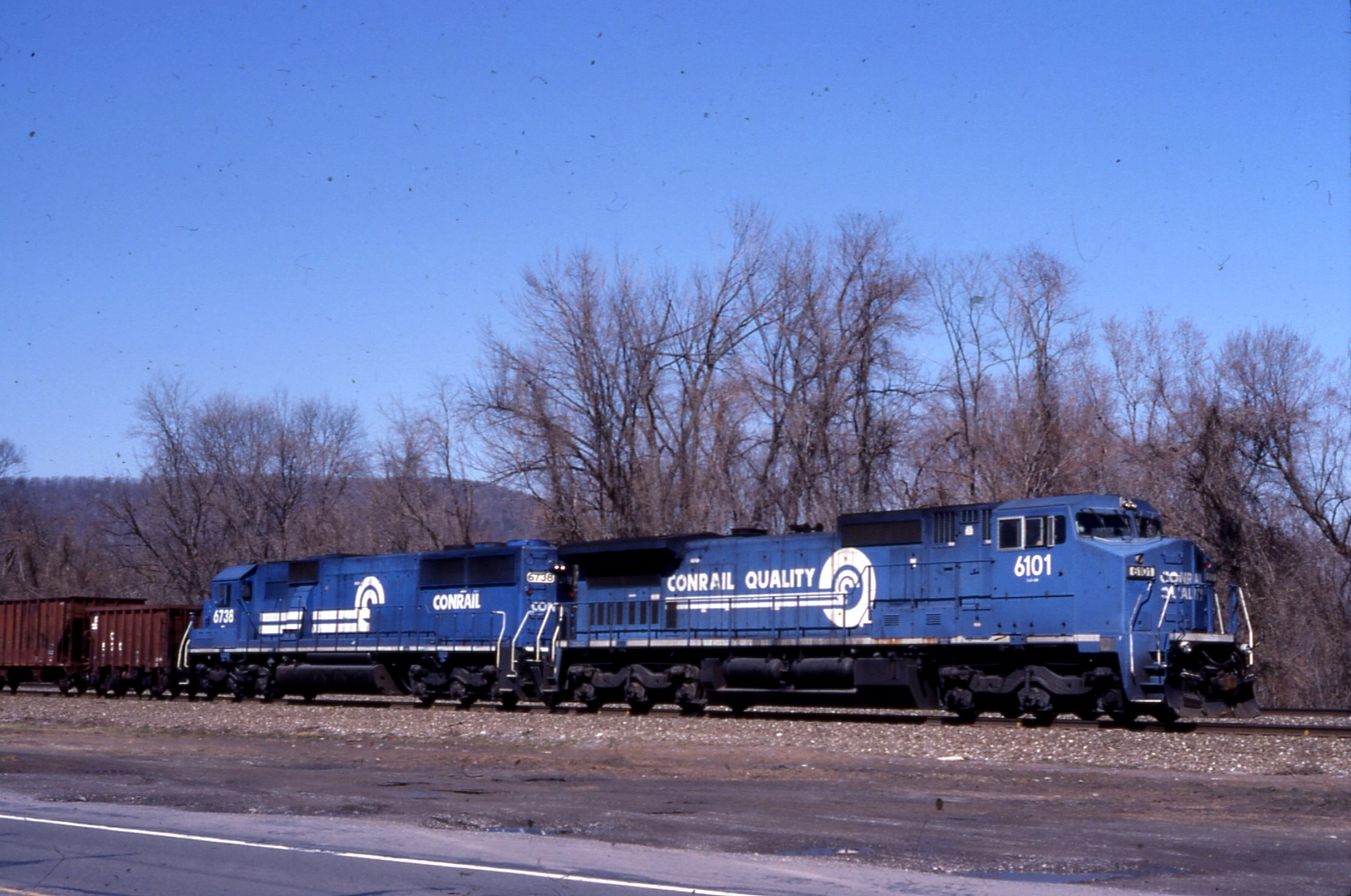 19960519 08 CR Marysville, PA